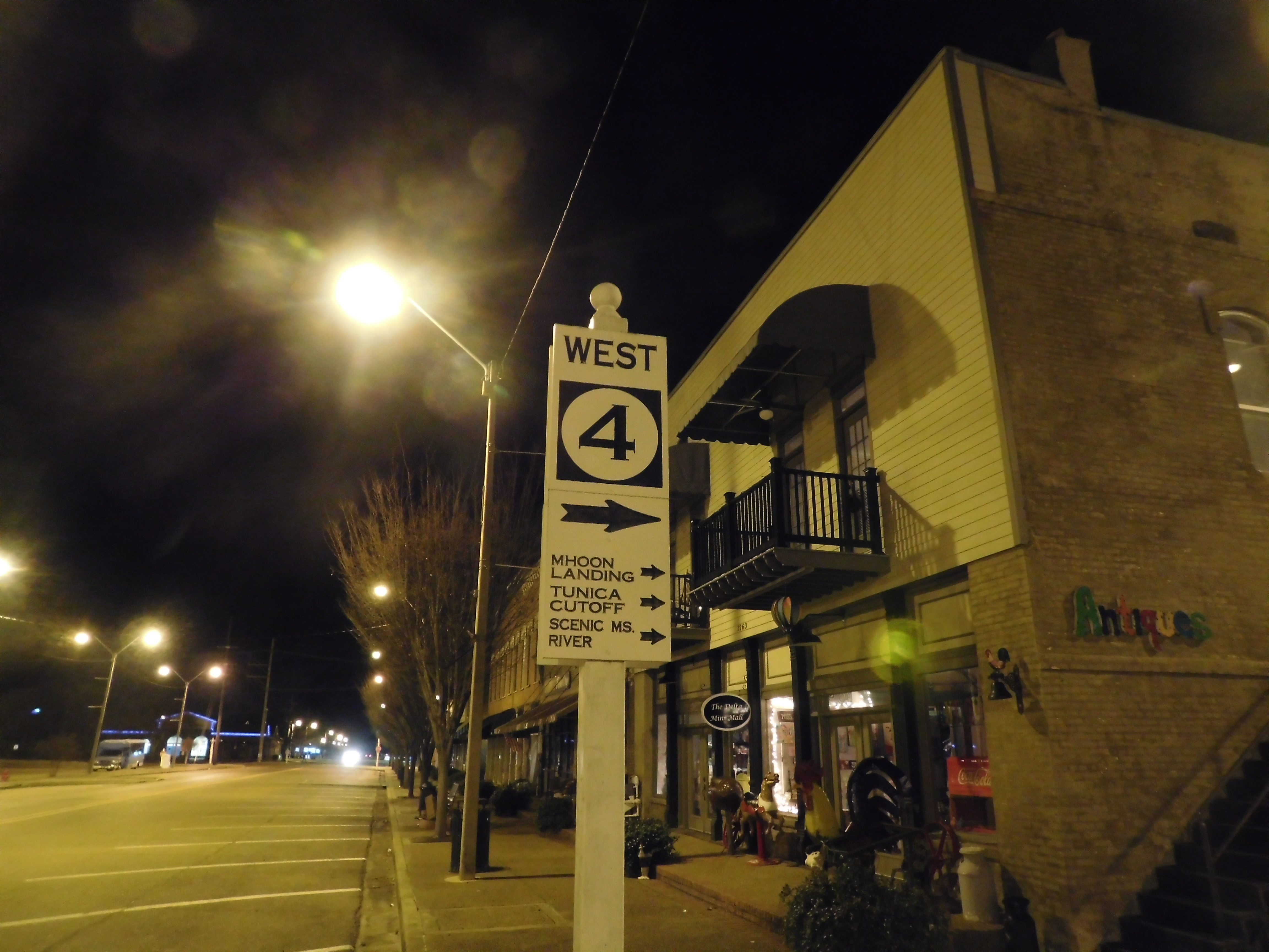 Main Street - Tunica, Mississippi.